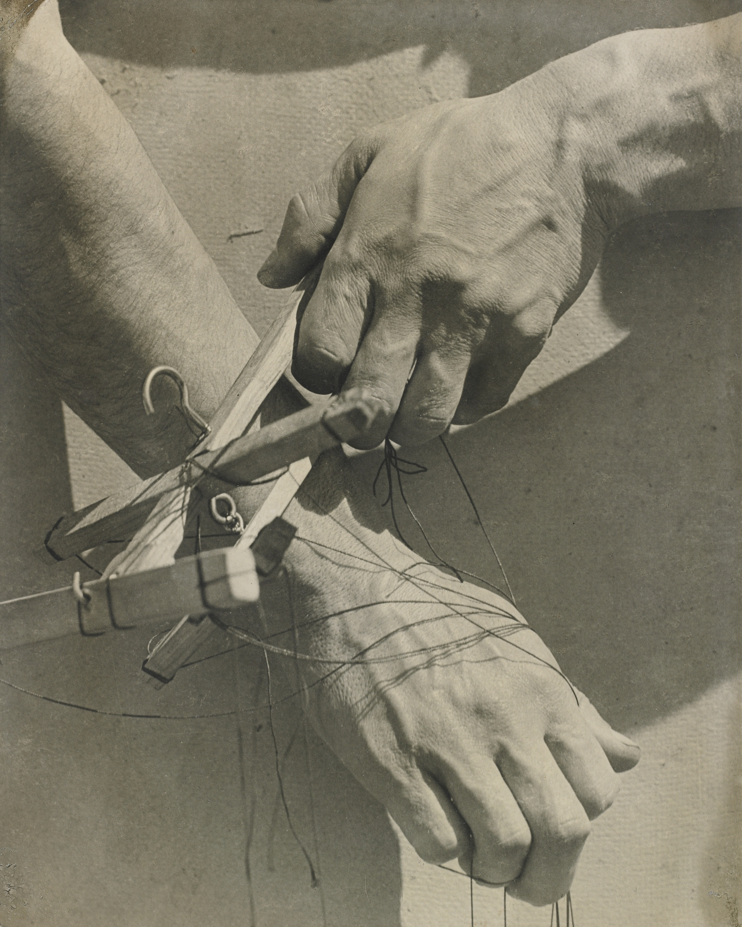 Tina Modotti, Mexican (born Italy), 1896 - 1942; Hands of the Puppeteer, Mexico City; 1929; Gelatin silver print; 9 15/16 x 7 15/16 in. (25.24 x 20.16 cm) (image, sheet); Minneapolis Institute of Art; Gift of the Patrick and Aimee Butler Family Foundation 85.87